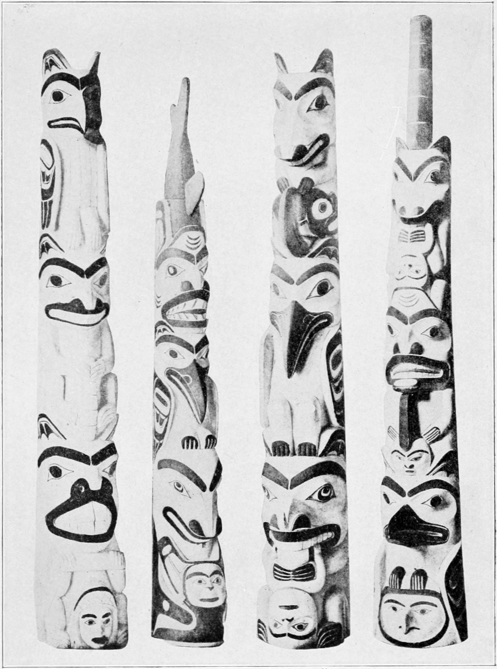 Haida Totem Poles